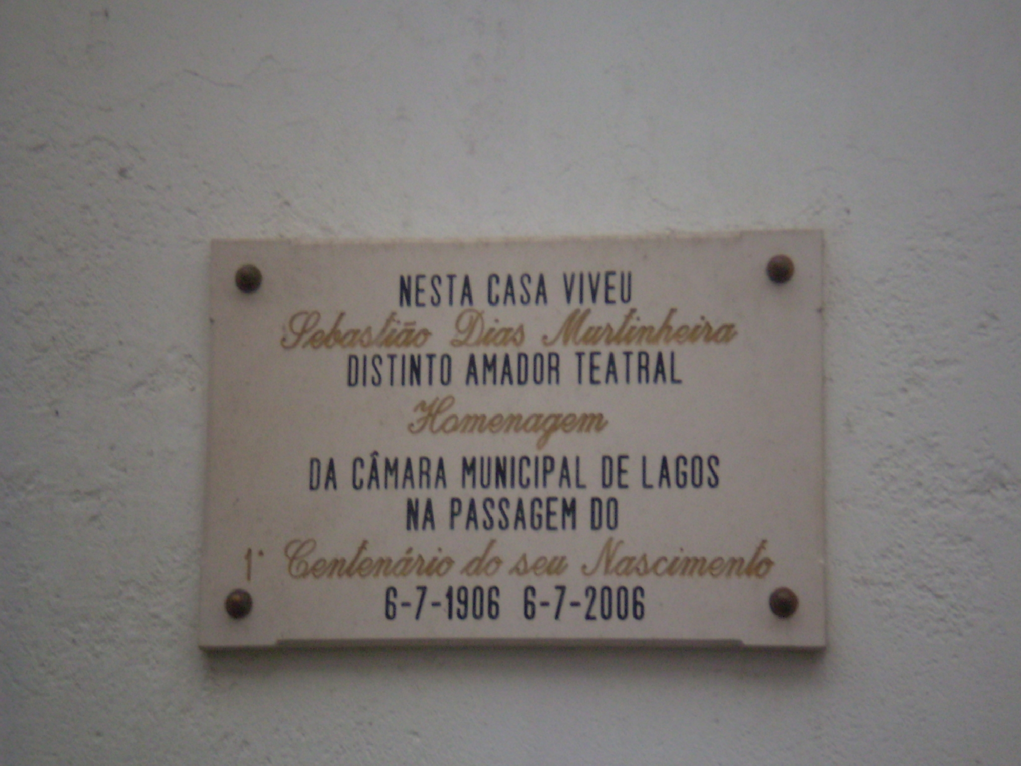 Commemorative plaque of Sebastião Murtinheira, in the house where he lived, in Travessa do Cotovelo, Lagos, Portugal.